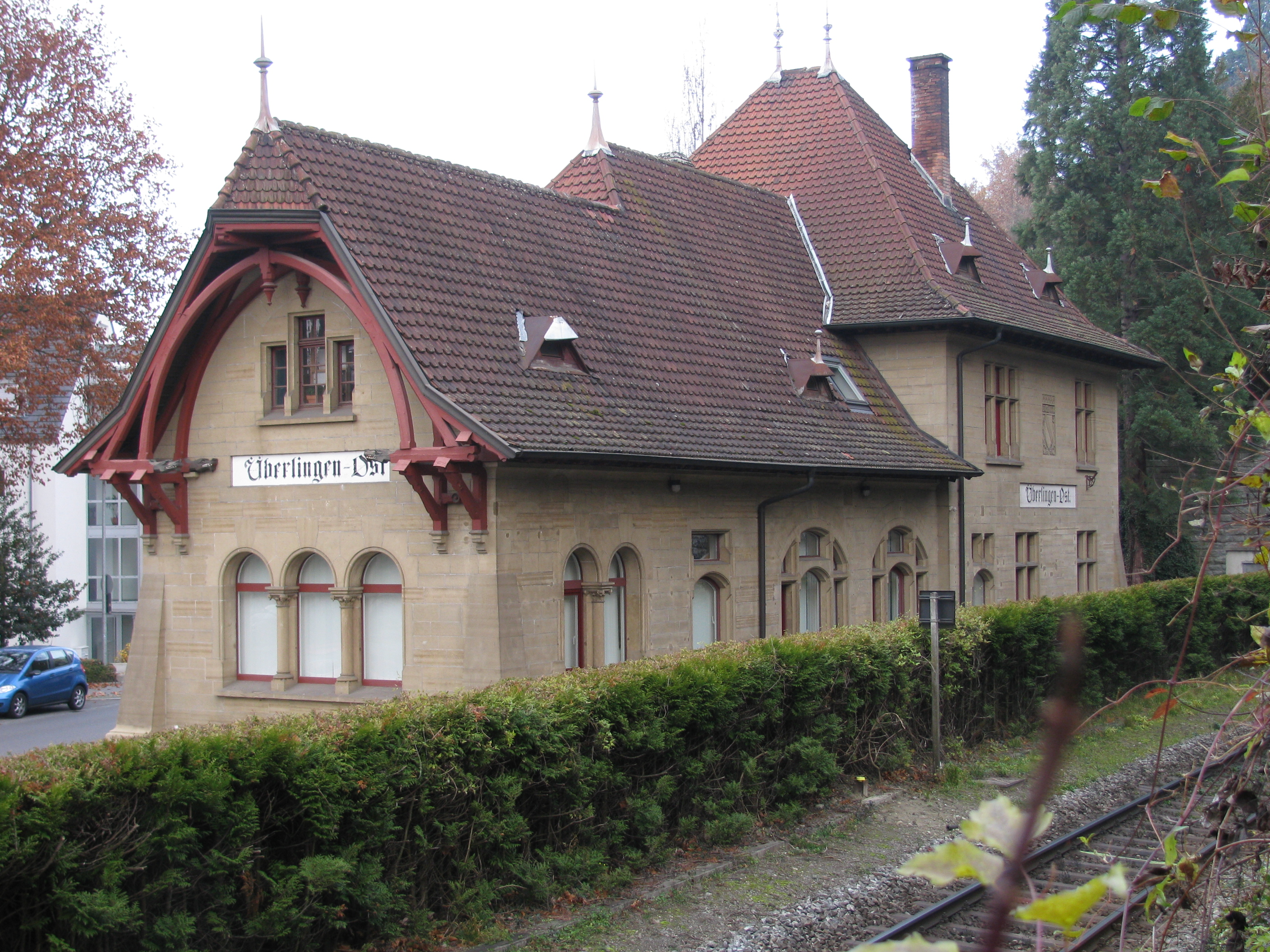 Germany - Baden-Württemberg - Bodenseekreis - Überlingen: former stationbuilding 'Überlingen east'